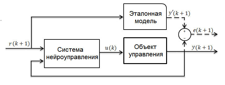 Model Reference Adaptive Neurocontrol